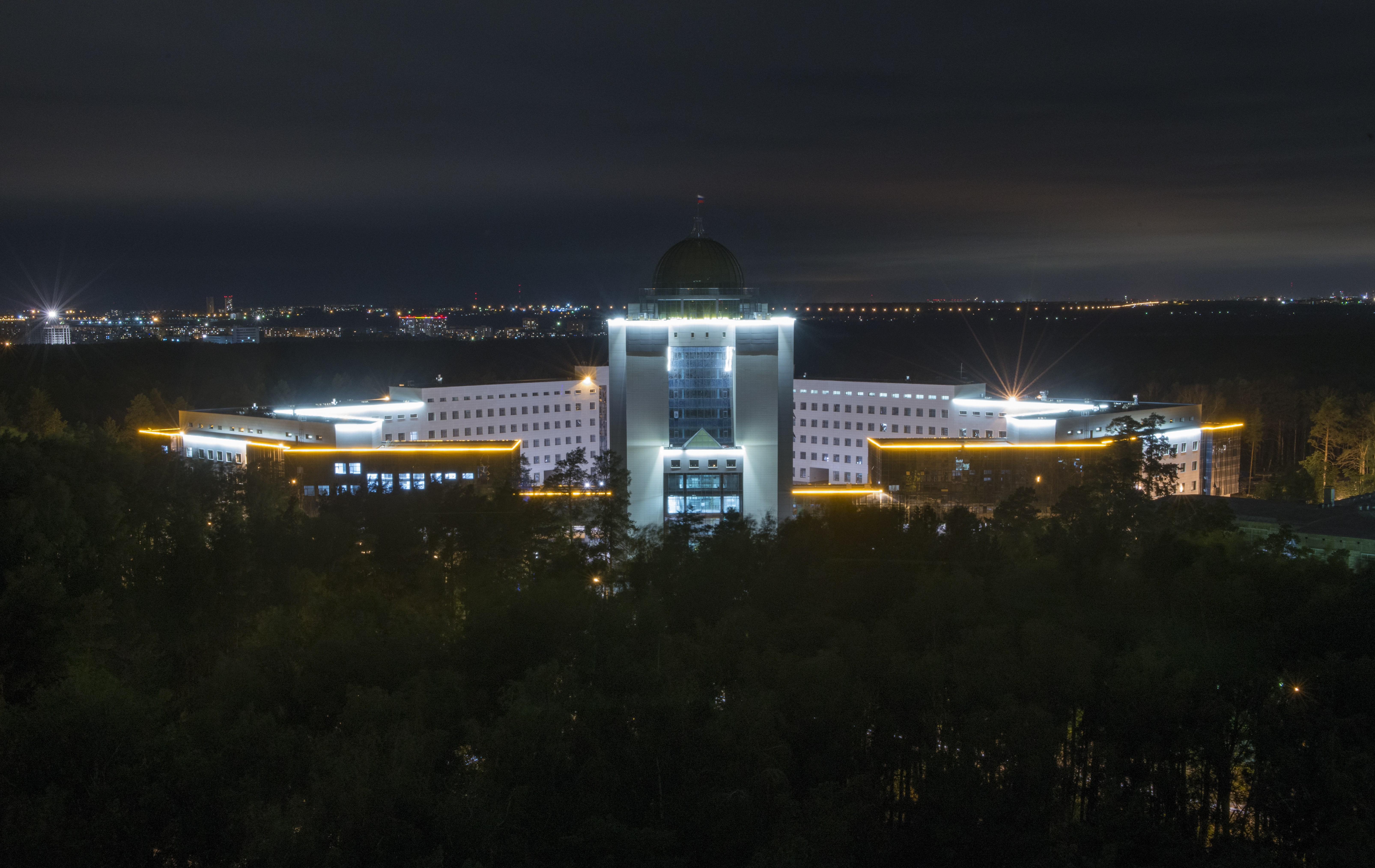 NSU new building